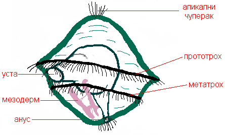 trochophore larva, labels in serbian